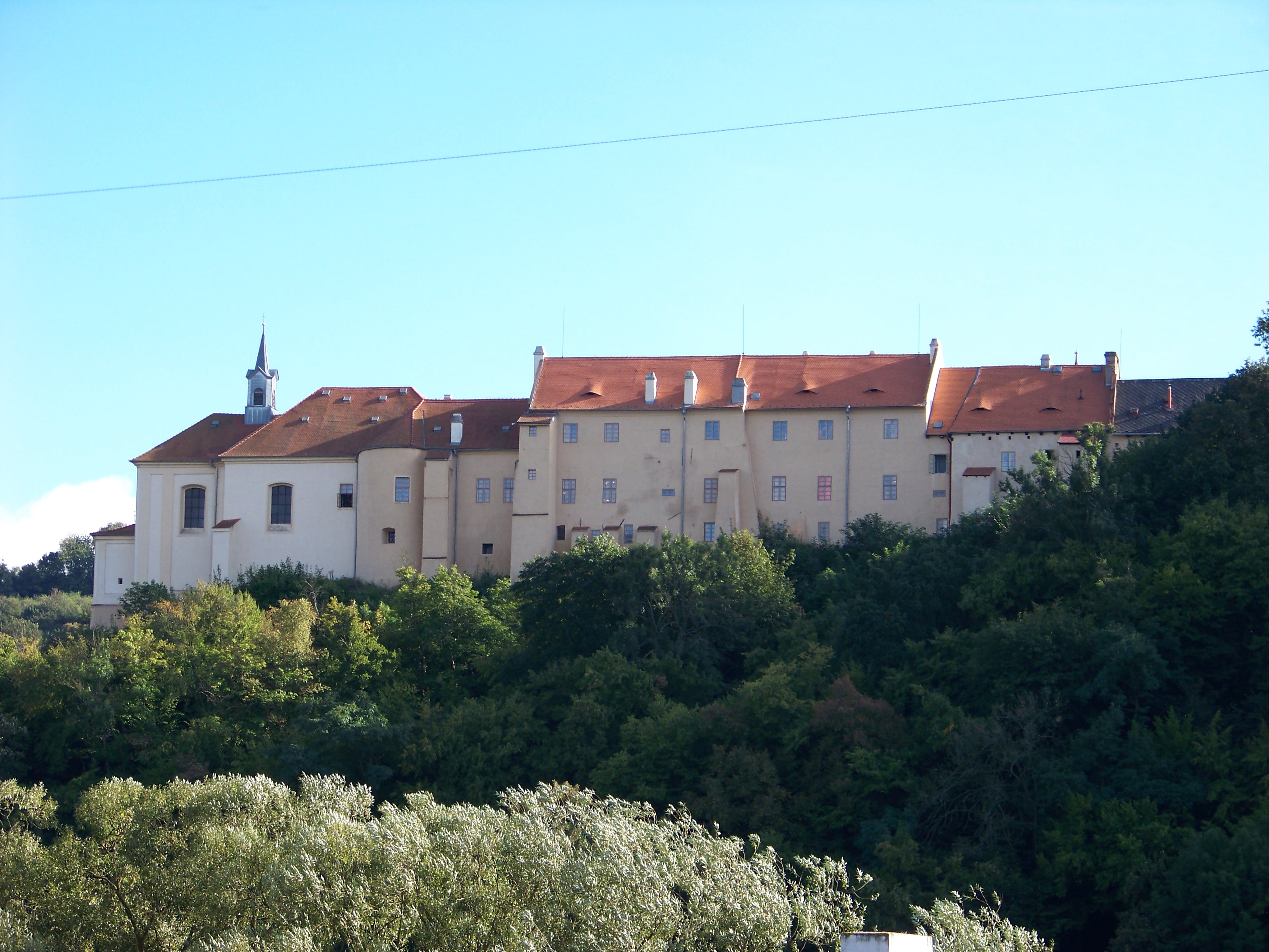 Nižbor, Beroun District, Central Bohemian Region, Czech Republic. A castle, seen from the train station. - OpenStreetMap (Info)